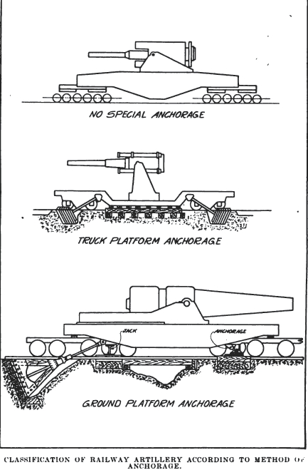 Diagram showing the methods of anchoring railroad guns in place